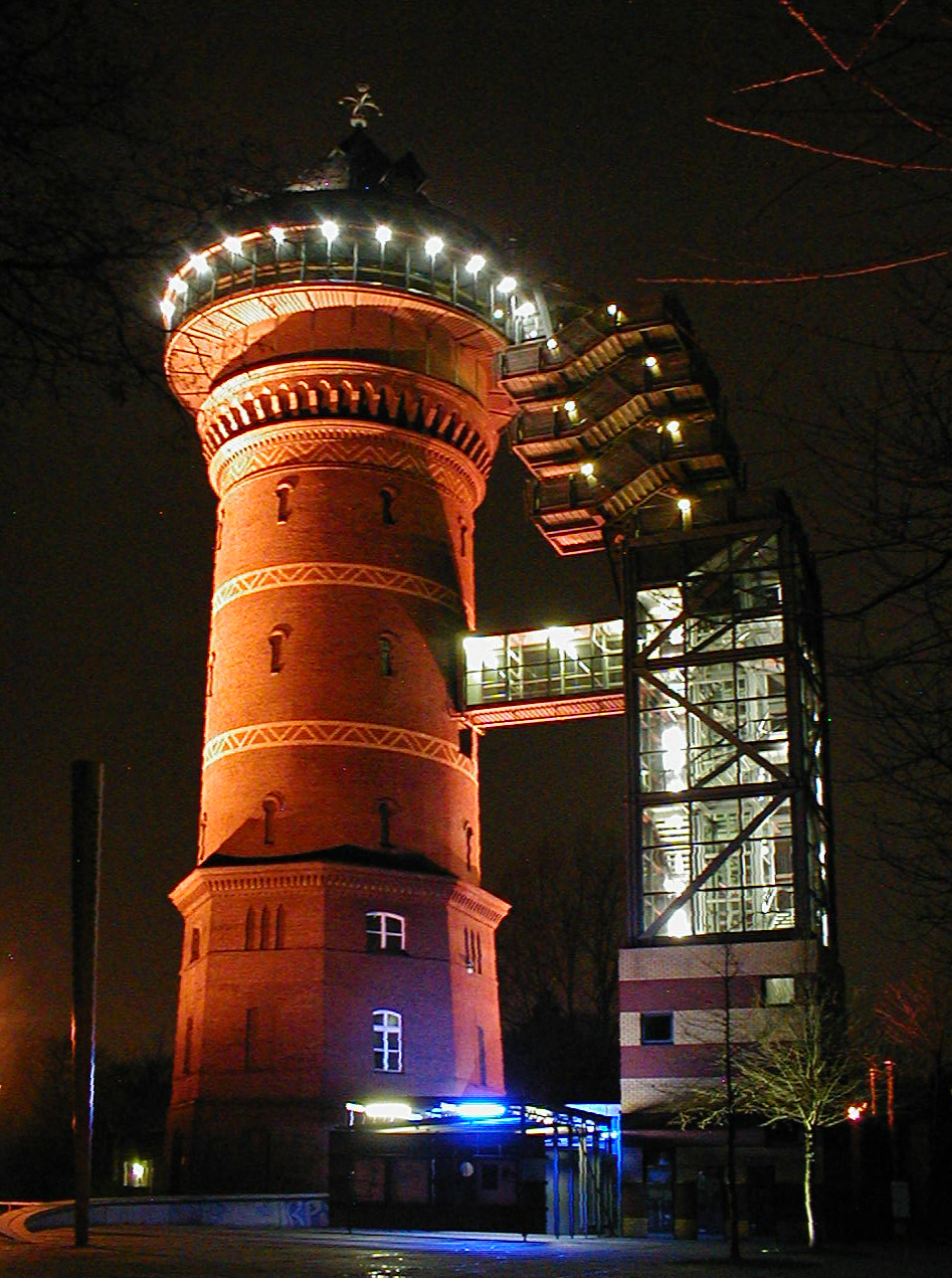 The watermuseum Aquarius at night.